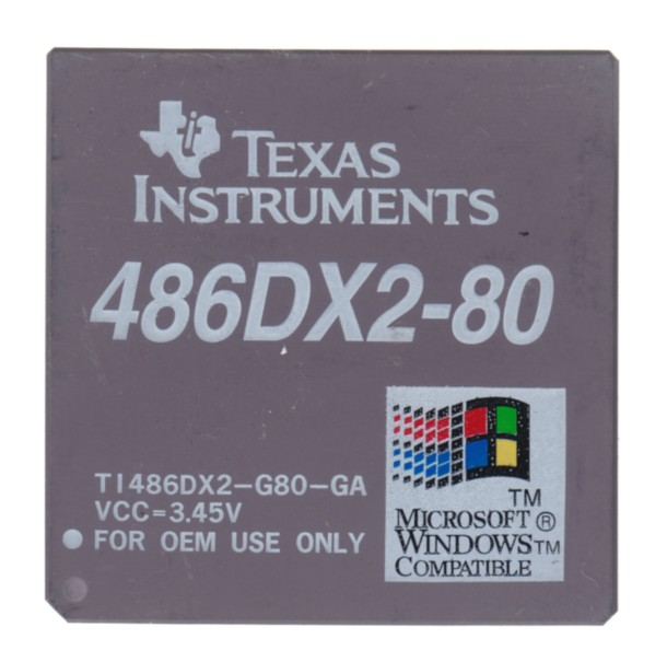 A TI/Cyrix CPU with 80 MHz